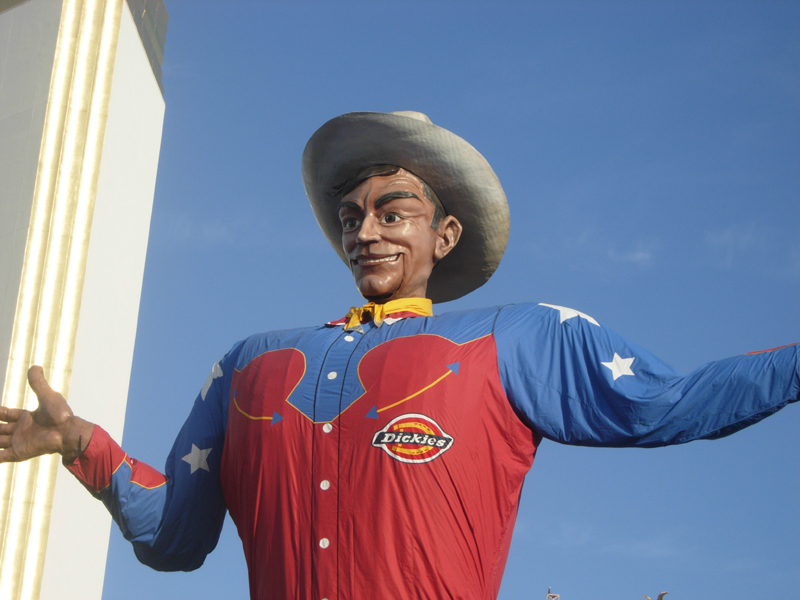 Big Tex for State Fair of Texas Author is me (Joe Sala)